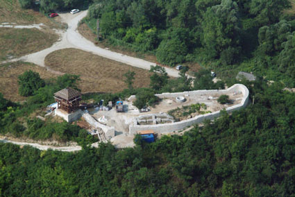 Castle - Solymár - Hungary - Europe